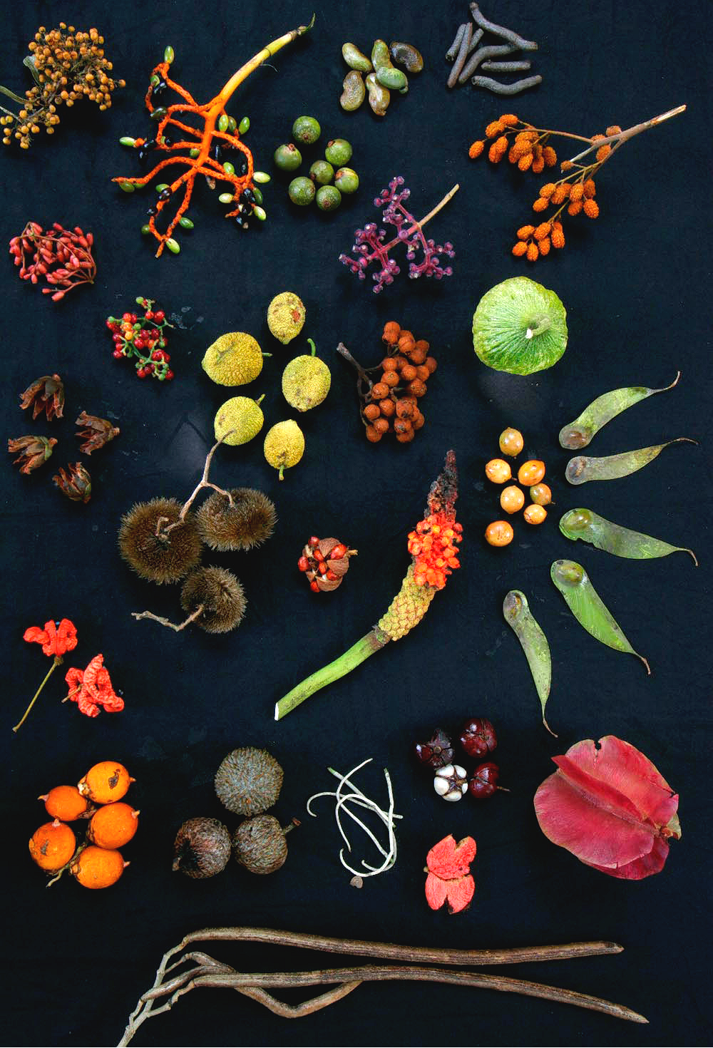 Conservation Efforts Hinge on Understanding the Factors Controlling Biodiversity. The diverse forest canopy on Barro Colorado Island, Panama, has provided ecologist Stephen Hubbell with years of data to test his controversial Unified neutral theory of biodiversity. Despite the different fruit types and dispersal modes pictured here, Hubbell wonders how well patterns of diversity can be explained by focusing on the similarity of species rather than their differences.